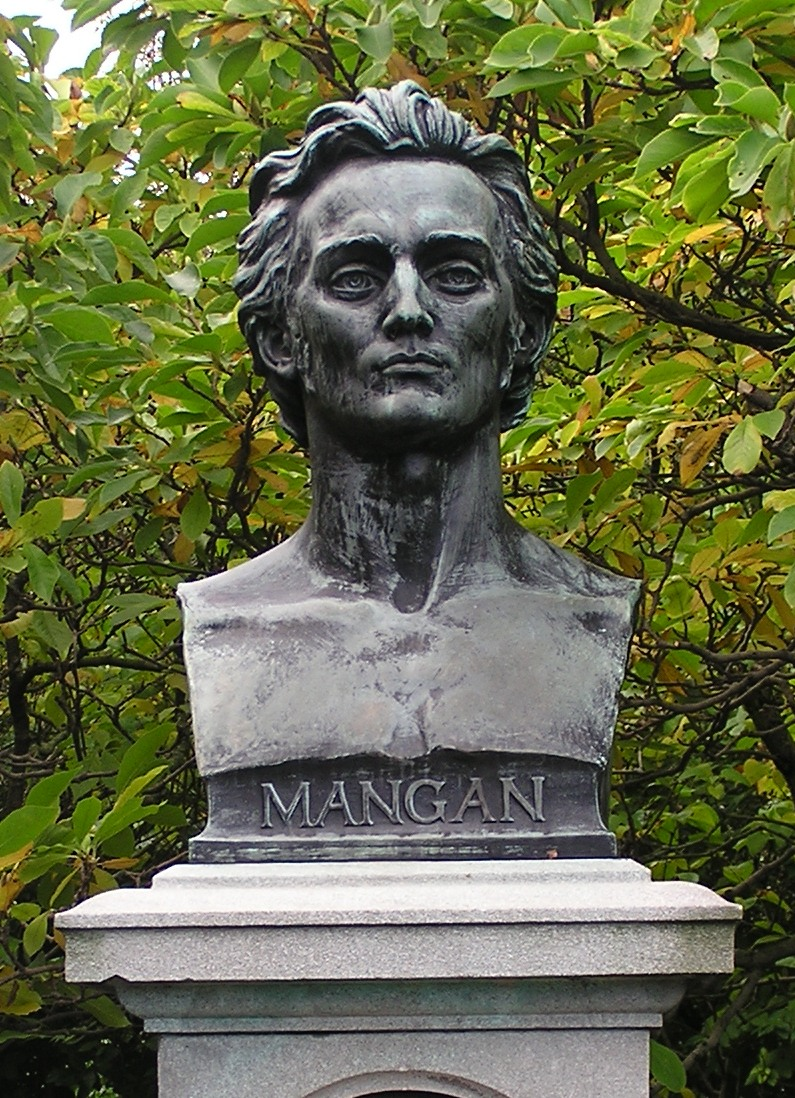 Bust of James Clarence Mangan by Oliver Sheppard in St. Stephen's Green, Dublin, Ireland. Taken by Storkk.